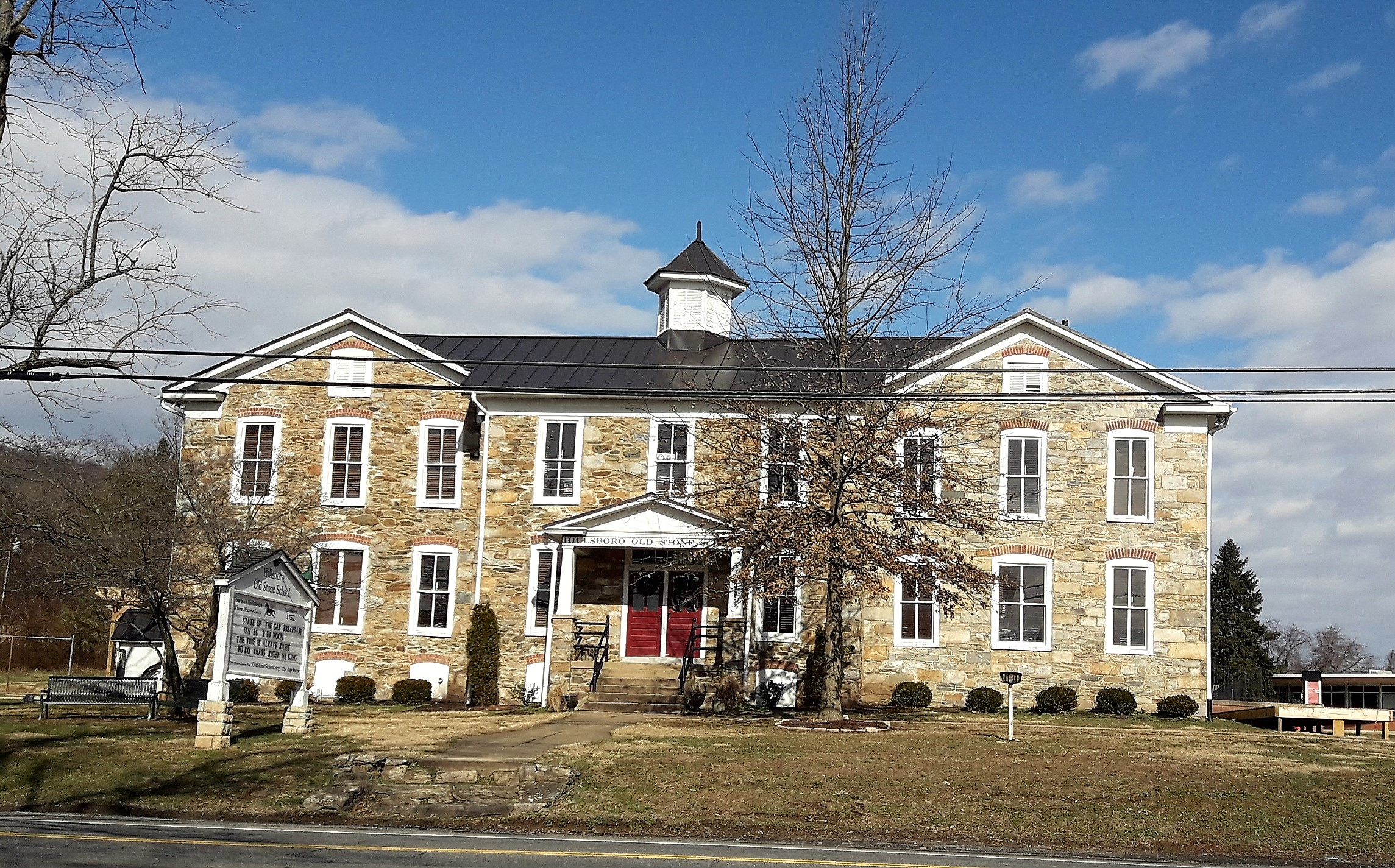 The Old Stone School building in Hillsboro, Loudoun county, Virginia